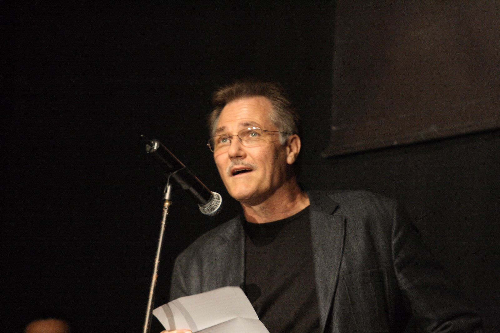 Brian Yuzna, director of Society and the last two Re-animator films.